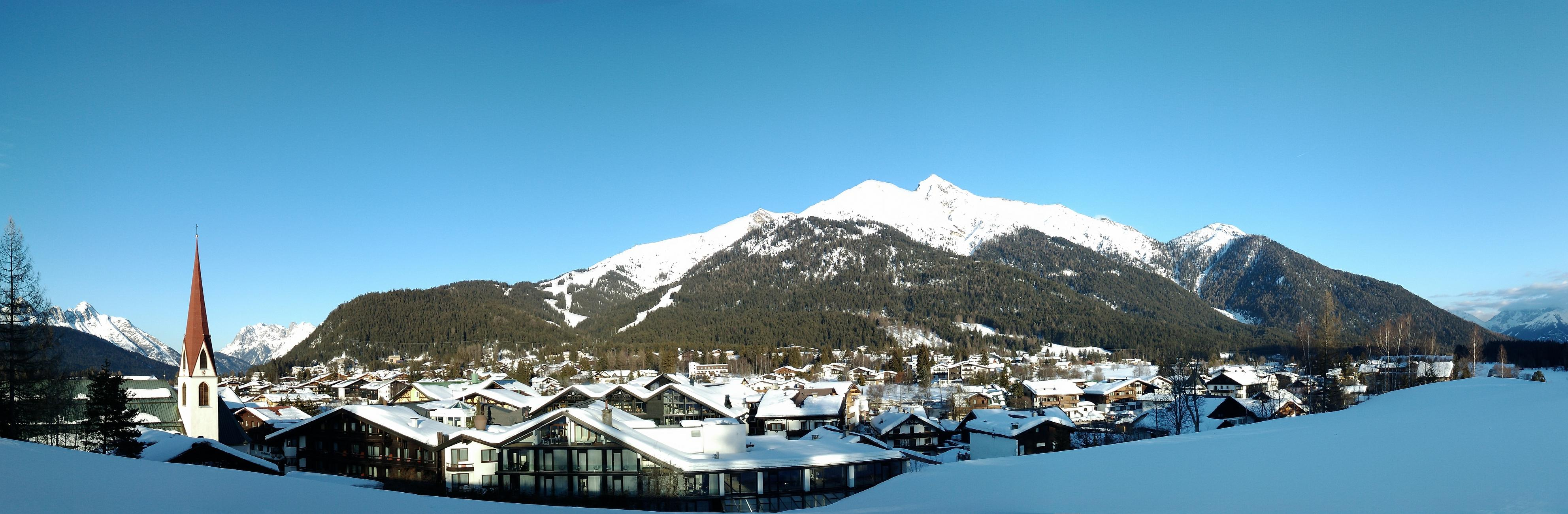 Panoramic view of Seefeld in Tyrol in winter